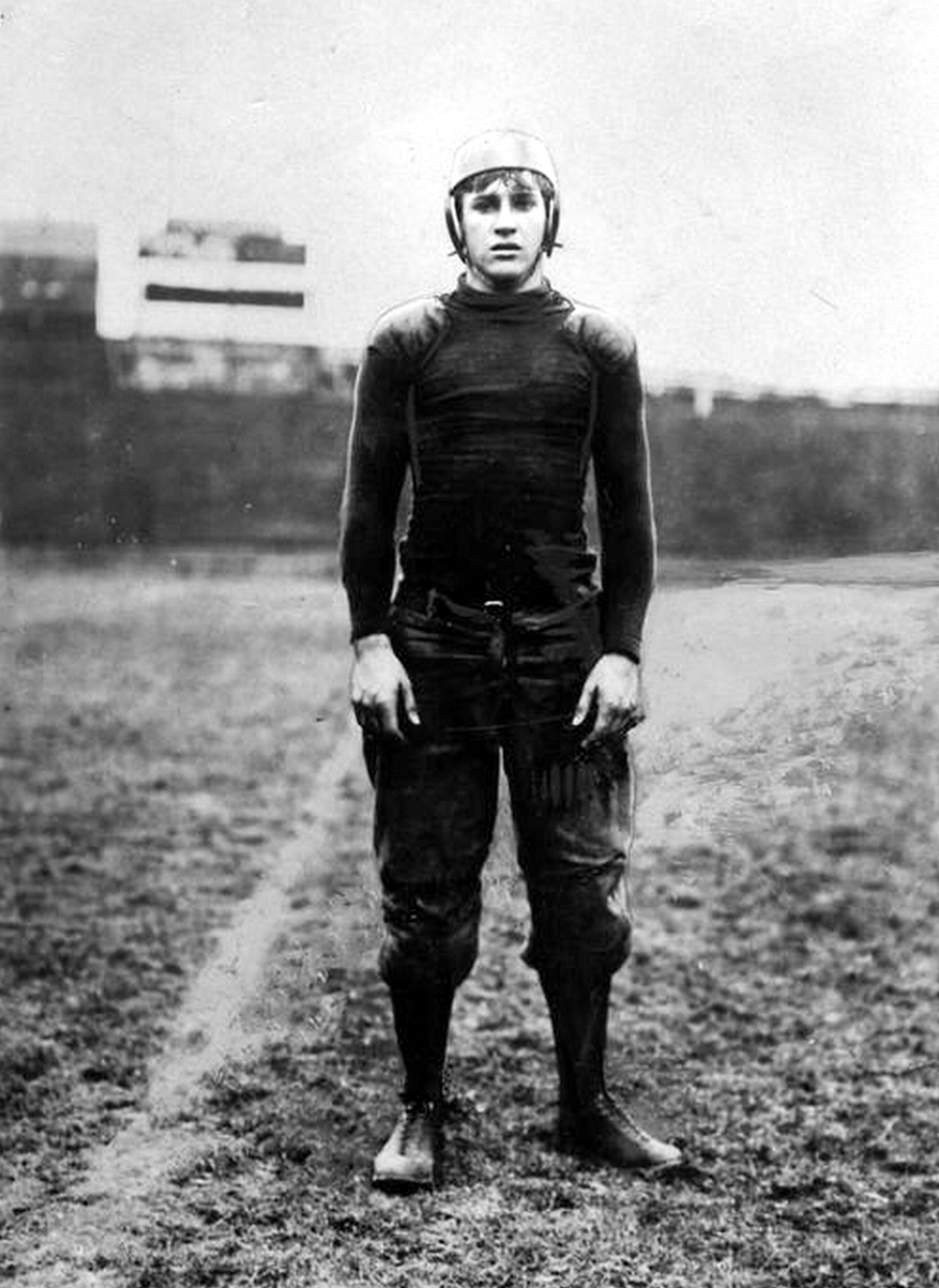 Harold Weekes, from a photograph, courtesy of the Columbia Athletic Association